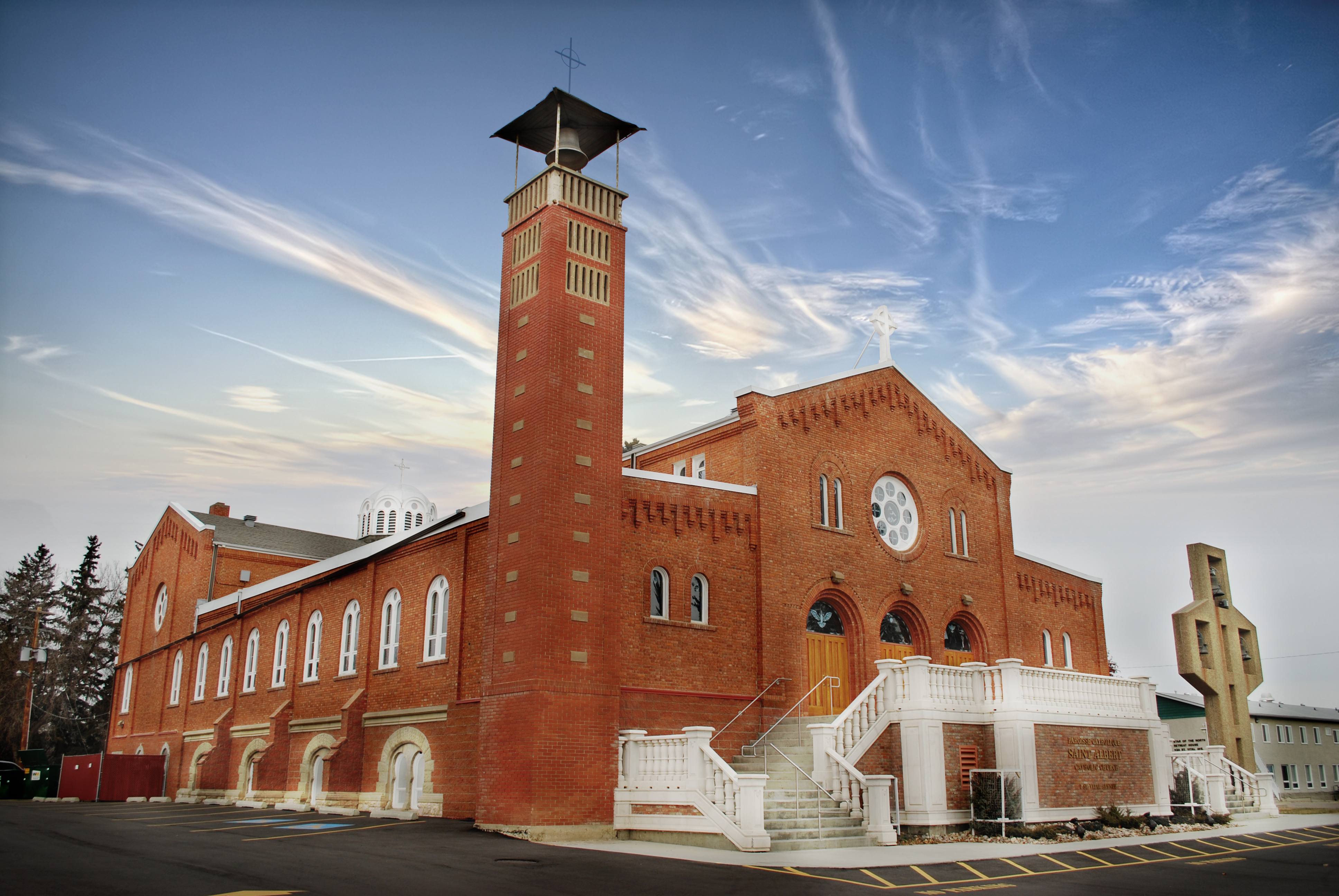 Fr. Albert Lacombe founded the St. Albert Mission in 1861, atop what is now St. Albert's Mission Hill on the current location of St. Albert Parish